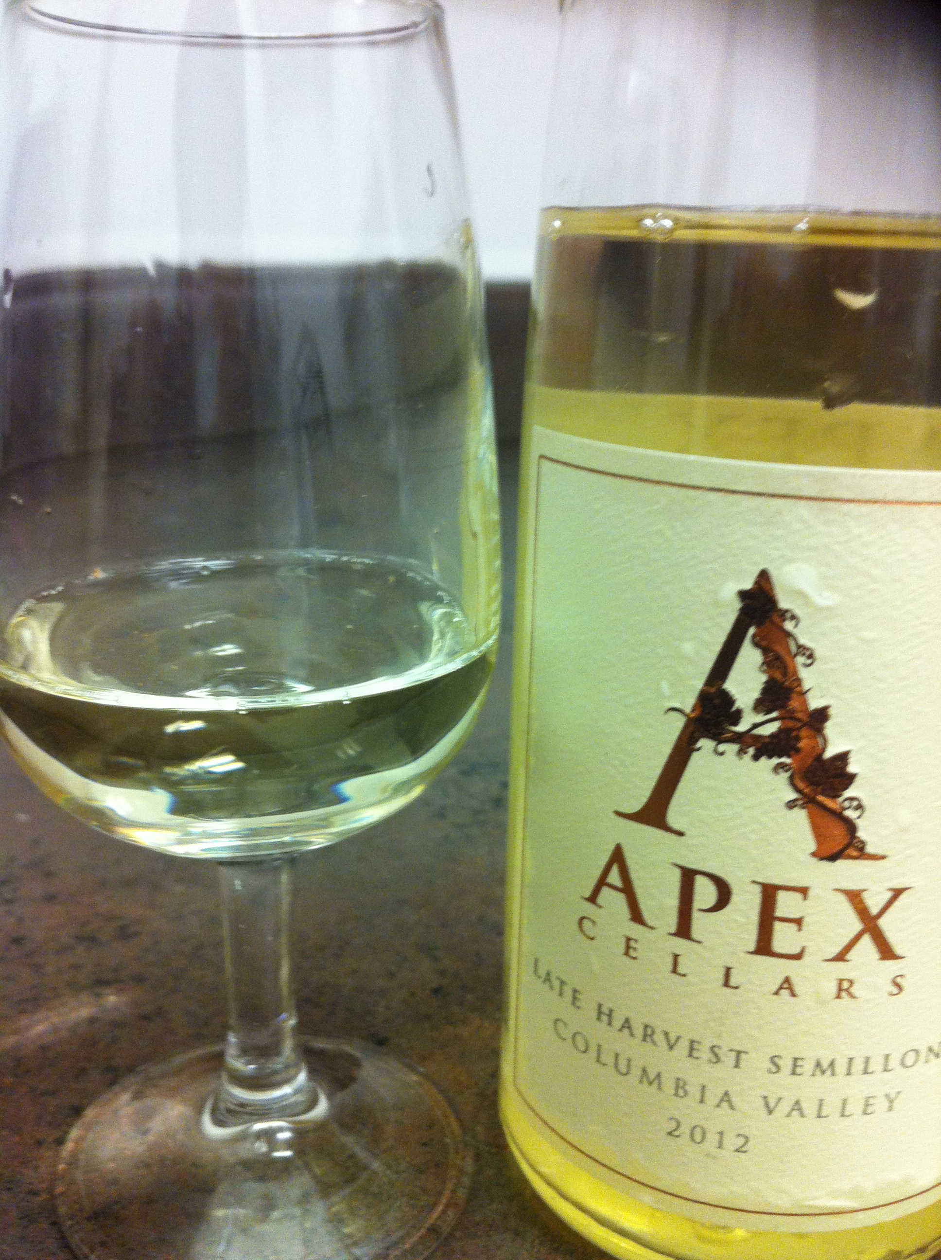 Washington wine from the Columbia Valley AVA made from late harvest Semillon grapes